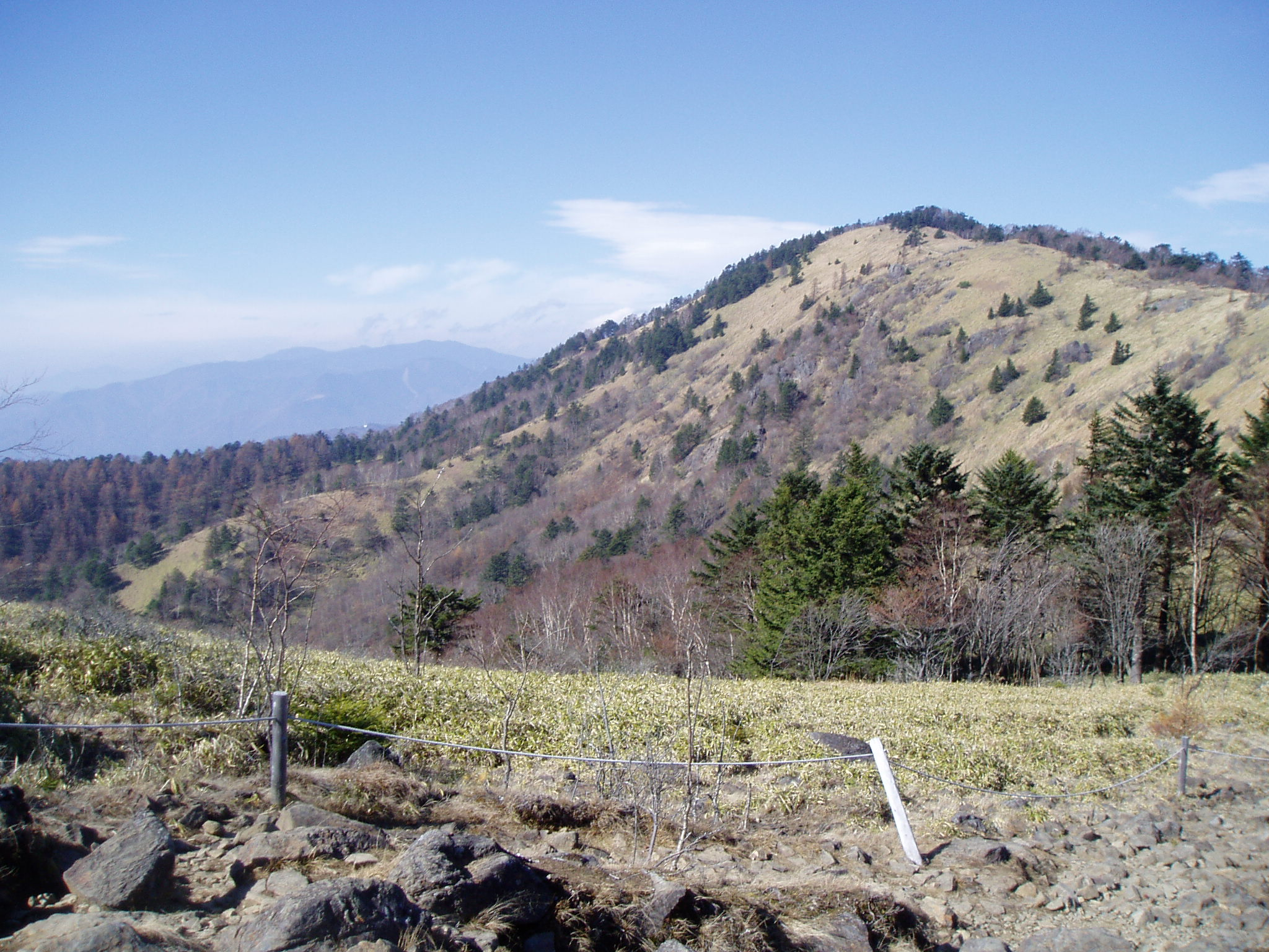 Mount Daibosatsu (Daibosatsurei, 2,057 m) from Sai-no-kawara, Yamanashi Prefecture, Japan